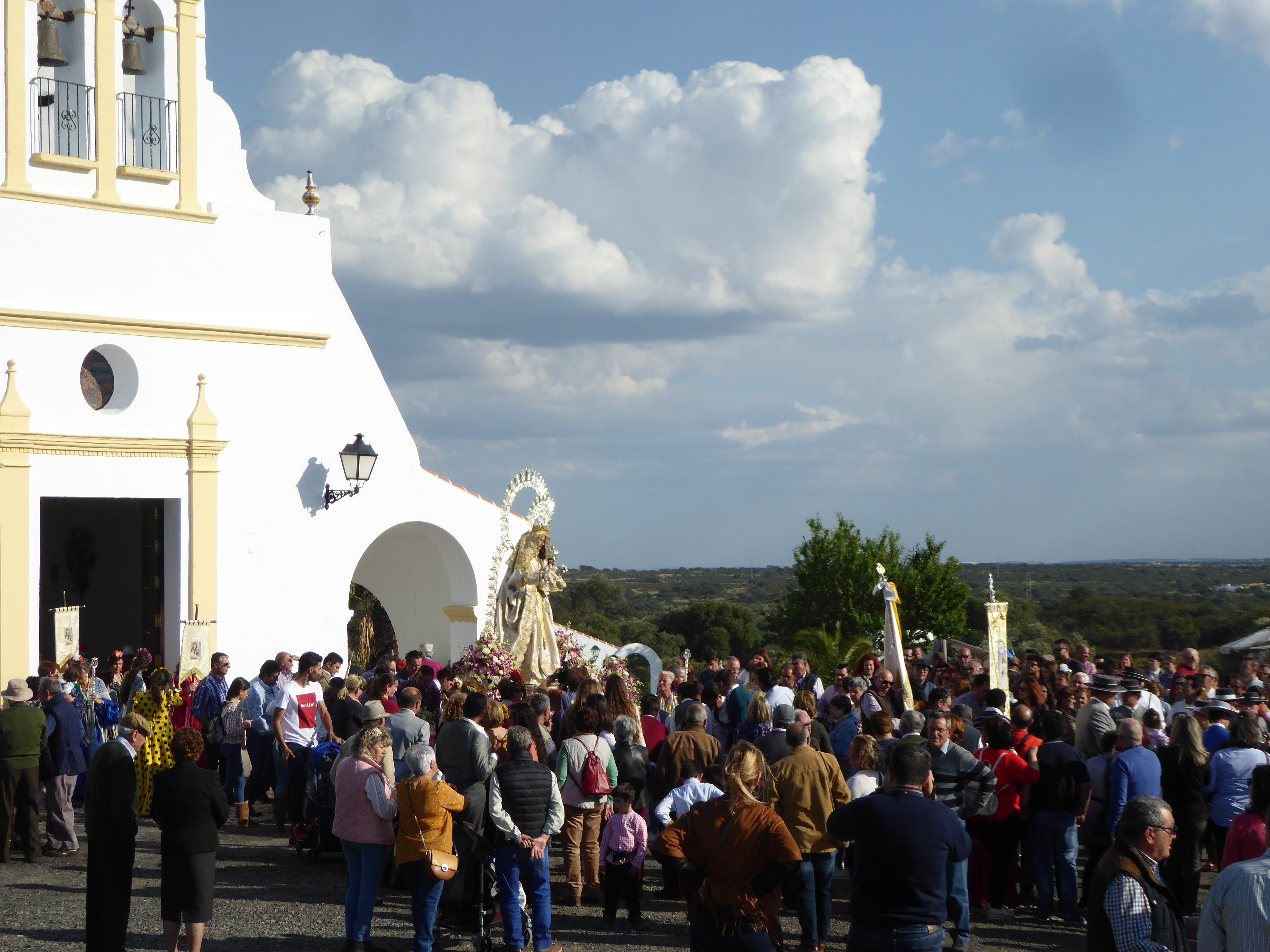 Romería de Nuestra Señora de Piedras Albas, año 2019, paseando la imagen de la Virgen.